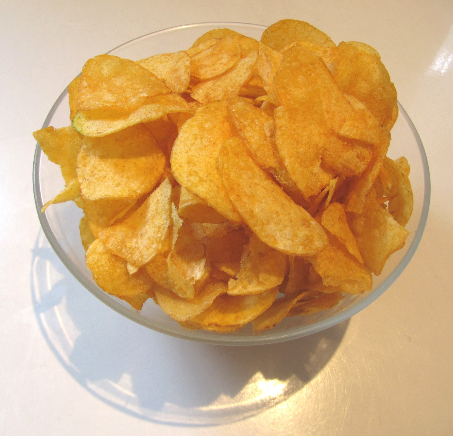 regular potato crisps (fried with the rind) in a bowl